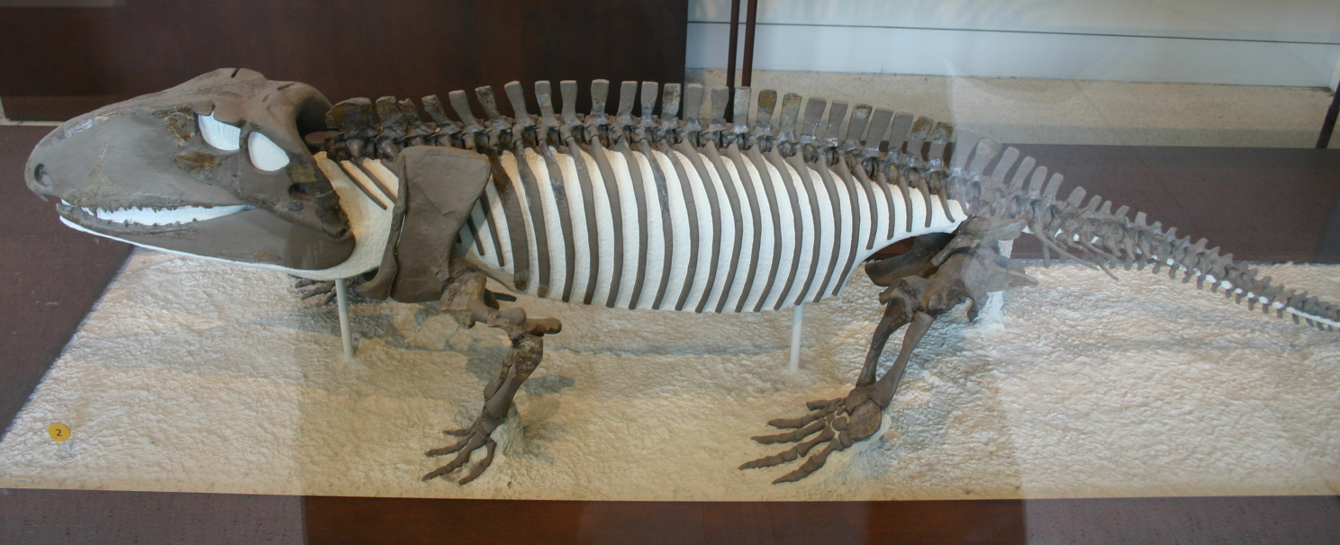 Extinct pelycosaur Ophiacodon retroversus